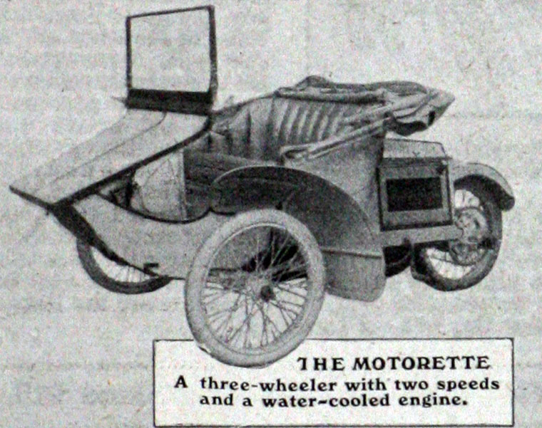 Premier 9hp Motorette (1913)